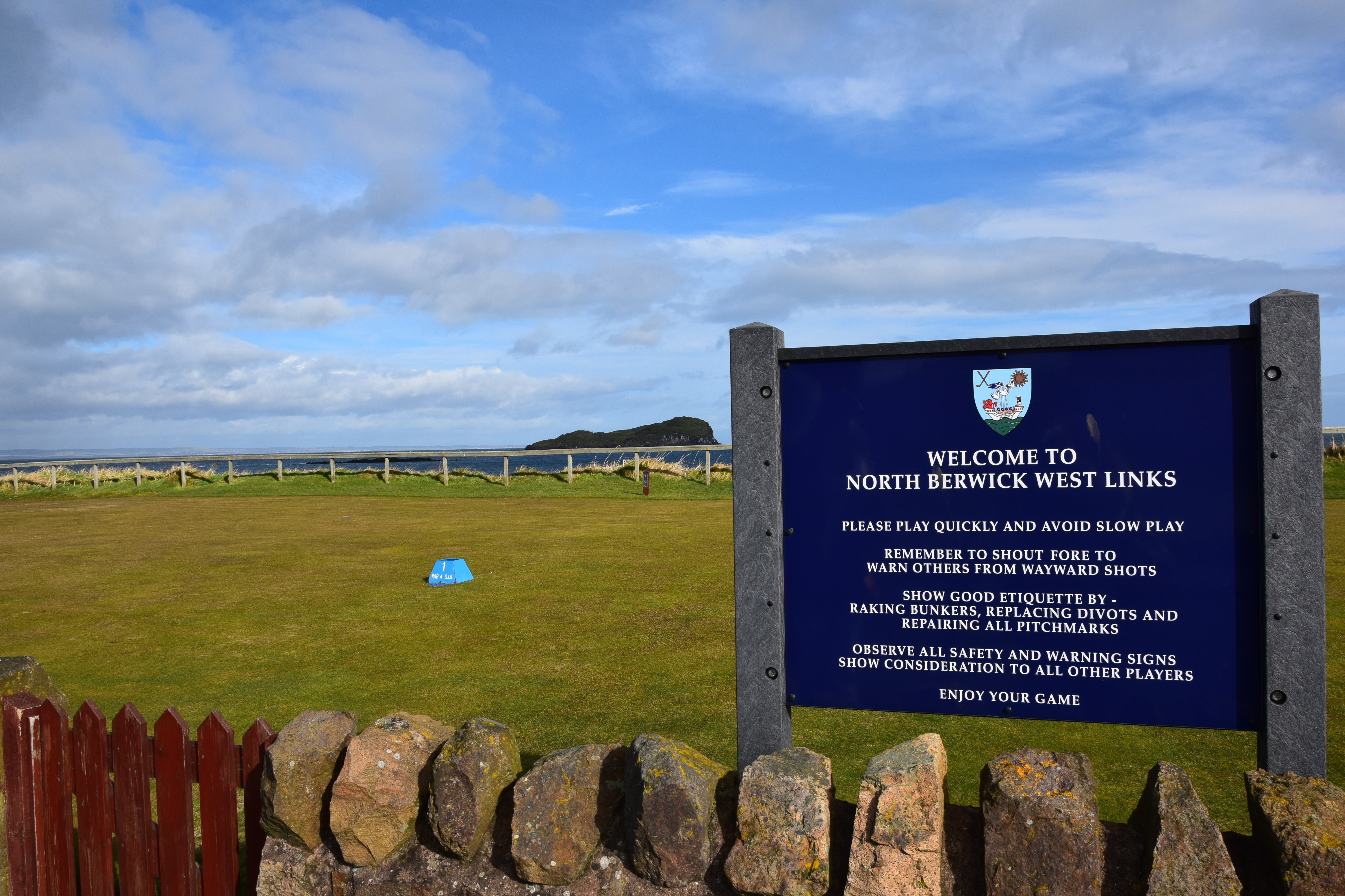 A historical golf club in North Berwick.